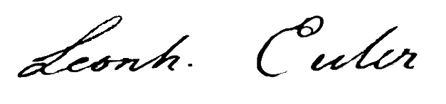 Leonhard Euler's signature (Swiss mathematician)